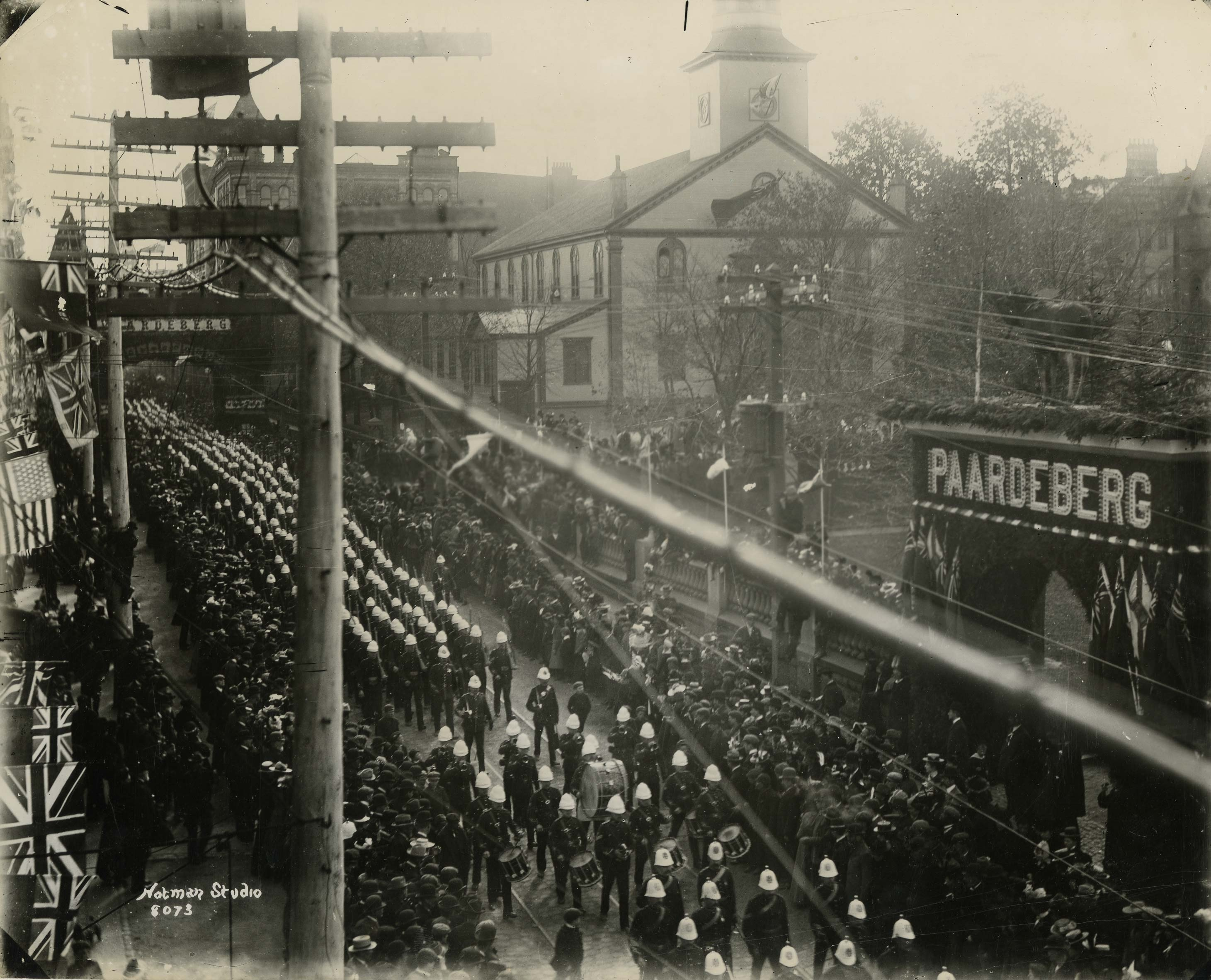 Boer War Victory Parade, Barrington St., Halifax, Nova Scotia